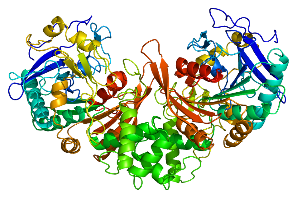 Structure of the CTSA protein. Based on PyMOL rendering of PDB 1ivy.